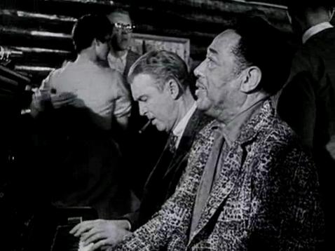 James Stewart and Duke Ellington in Anatomy of a Murder (1959) - trailer (cropped screenshot)